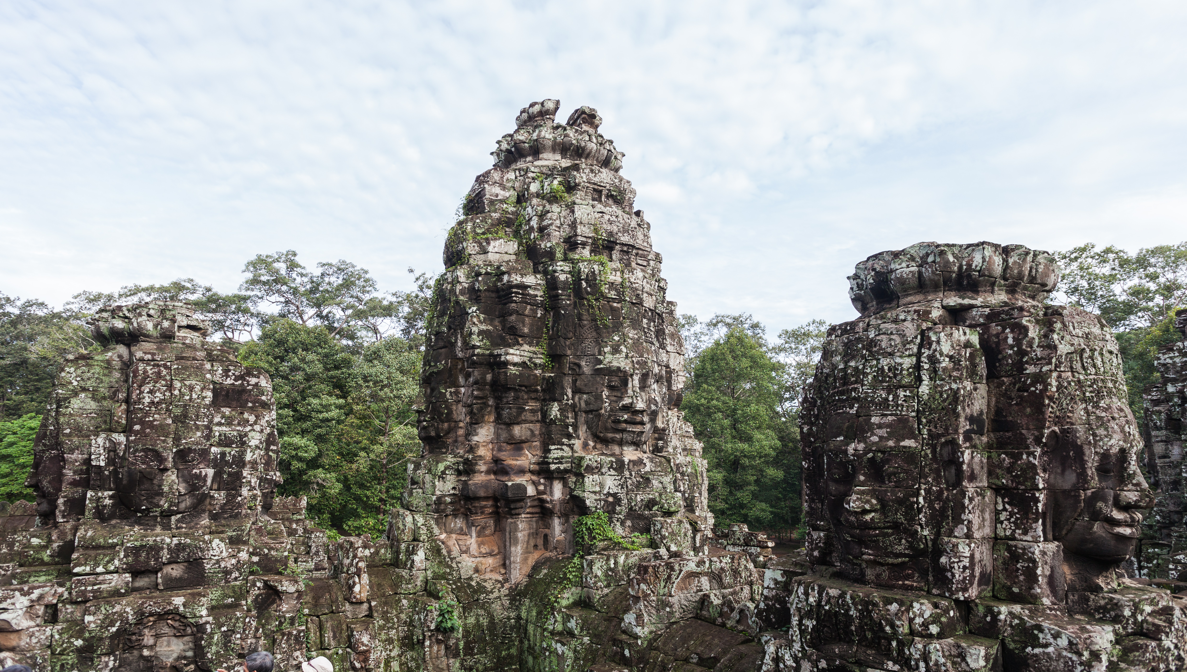 Bayon, Angkor Thom, Cambodia